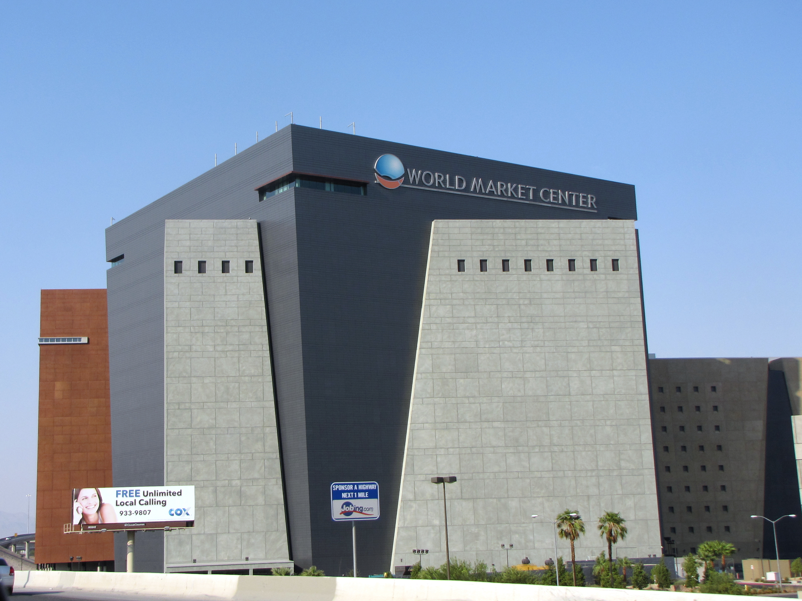 World Market Center Las Vegas Building B